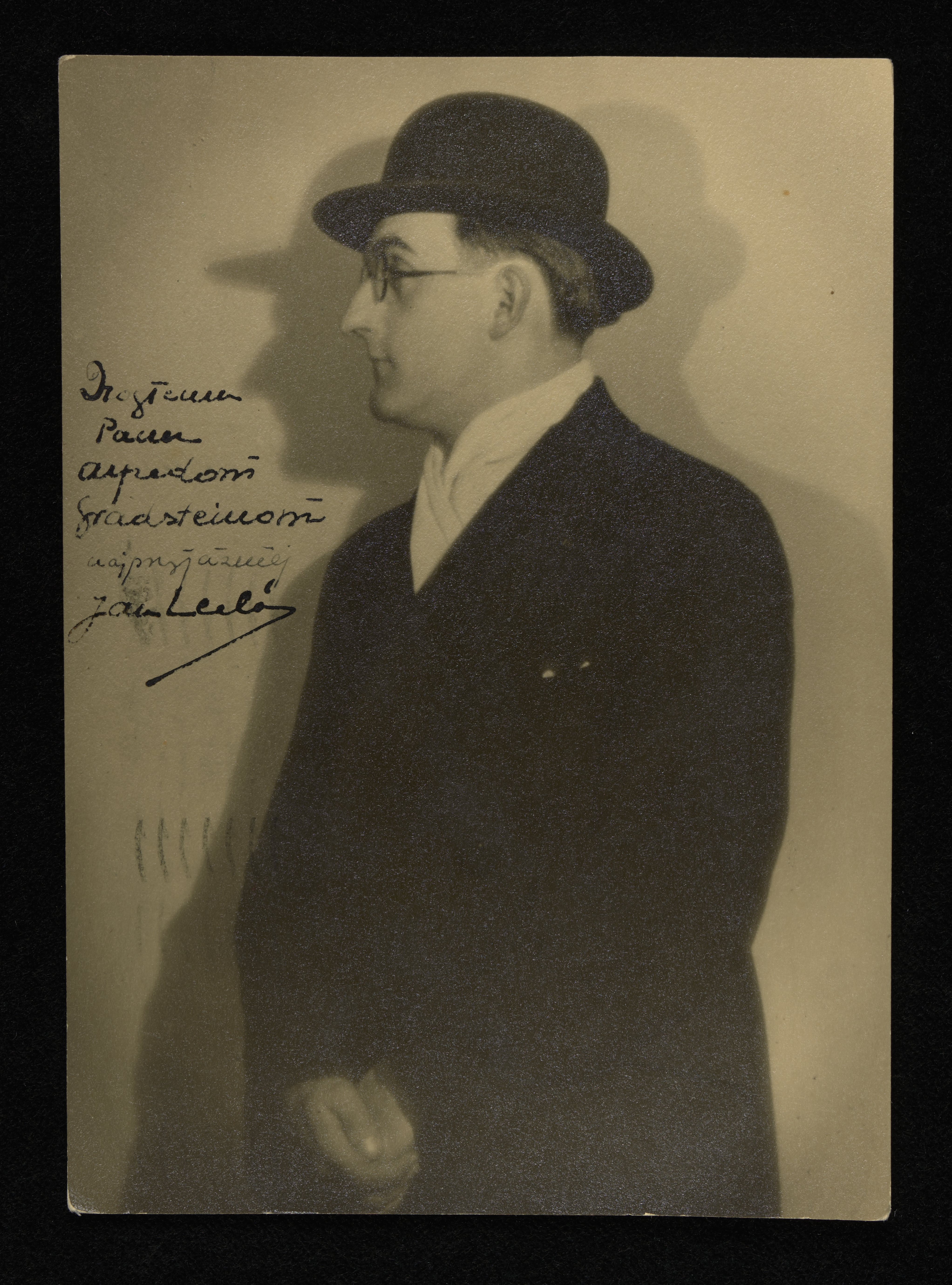 Jan Lechoń, 1931 r.